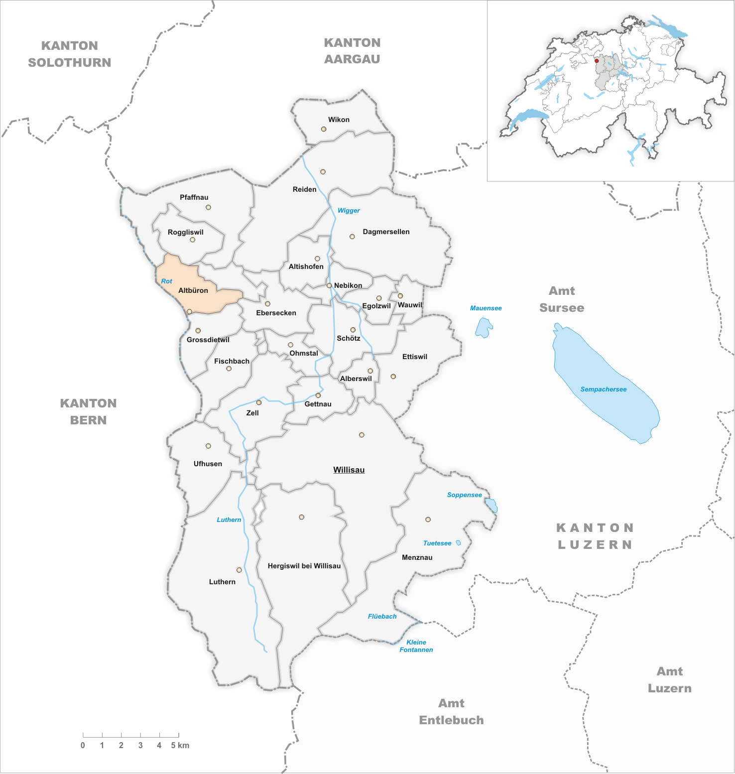 Municipality Altbüron